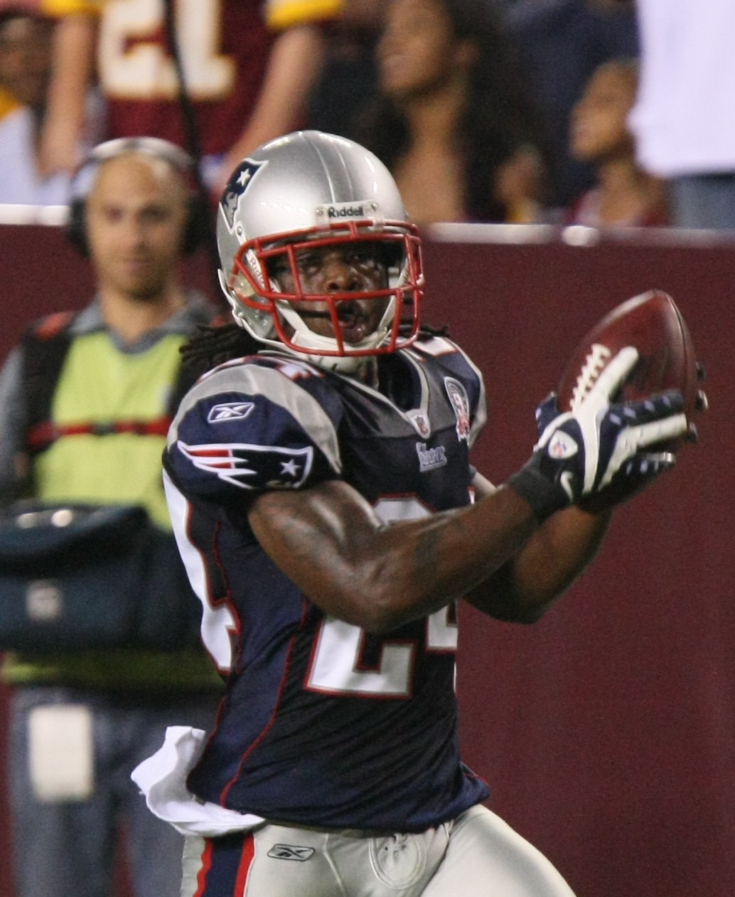 New England Patriots at Washington Redskins 08/28/09